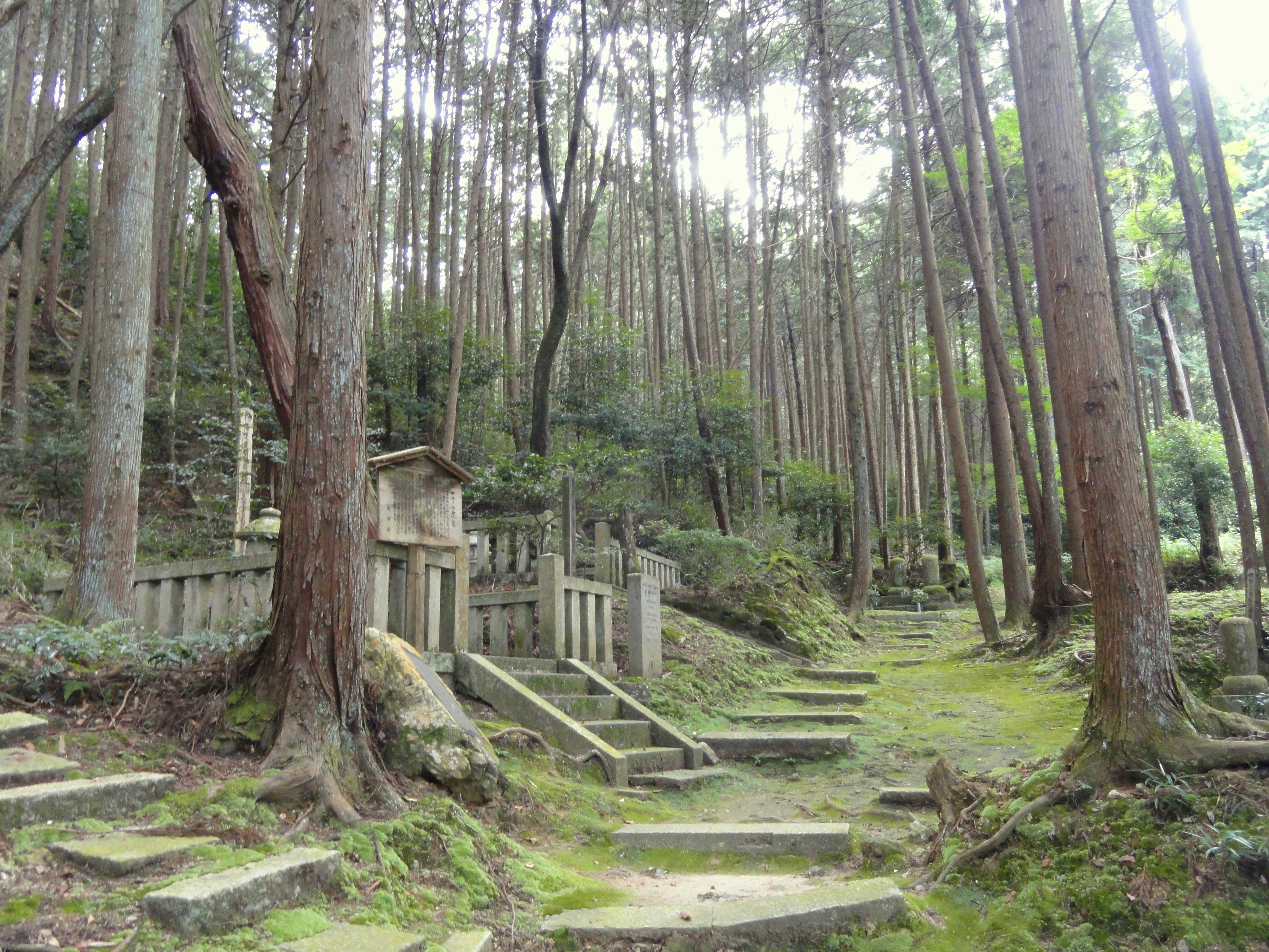 Ernest Fenollosa's grave, in the graveyard of Homyoin temple (法明院), Otsu, Shiga, Japan.